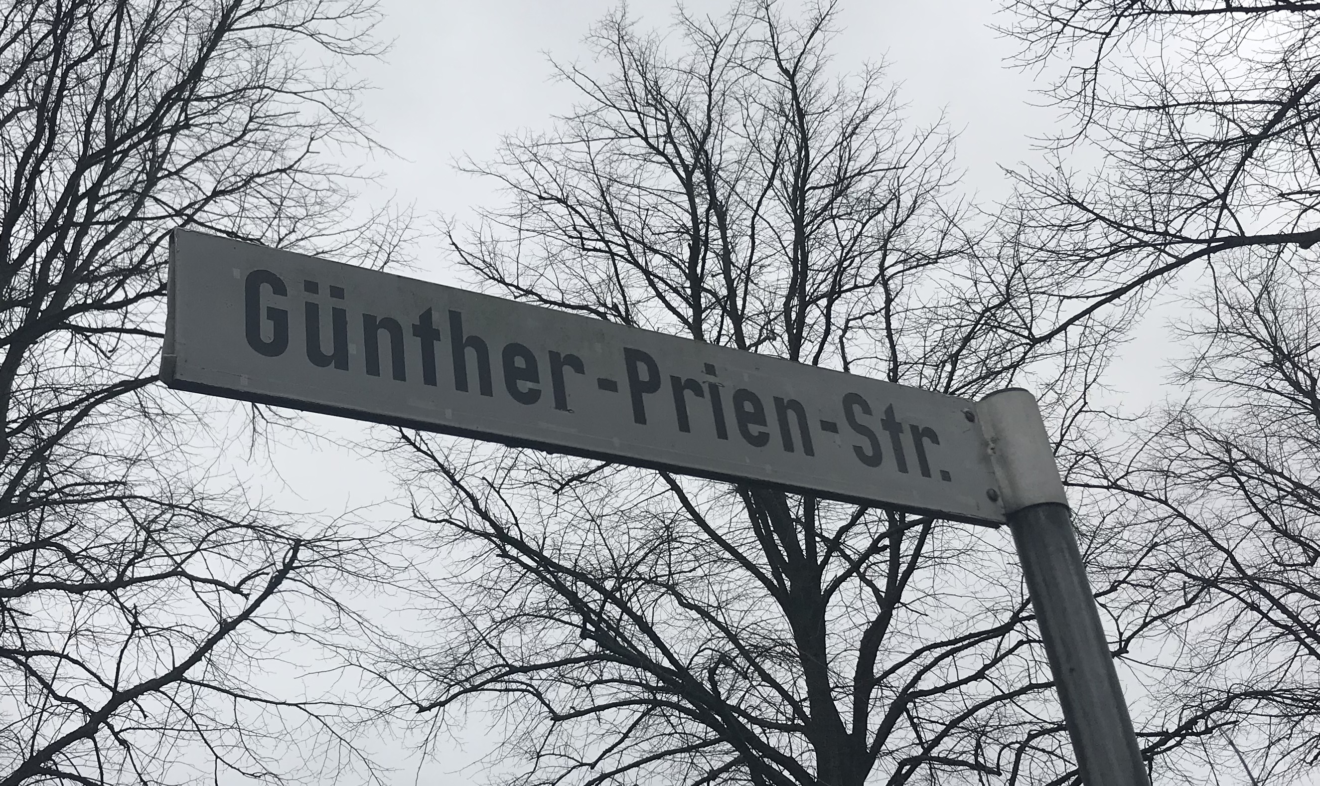 Road sign of the Günther Prien street in Schönberg, Plön